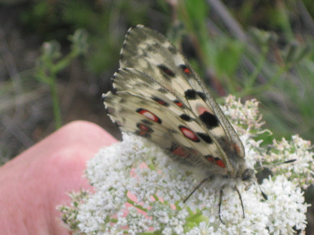 Parnassius_nomion nomion. Saw, on Ogoi Island, Lake Baikal, Russia. An e-mail from Ilya Osipov reads, Dear Dean , This butterfly is Parnassius nomion, family Papilionidae. You can Sincerely yours, Ilya OSIPOV